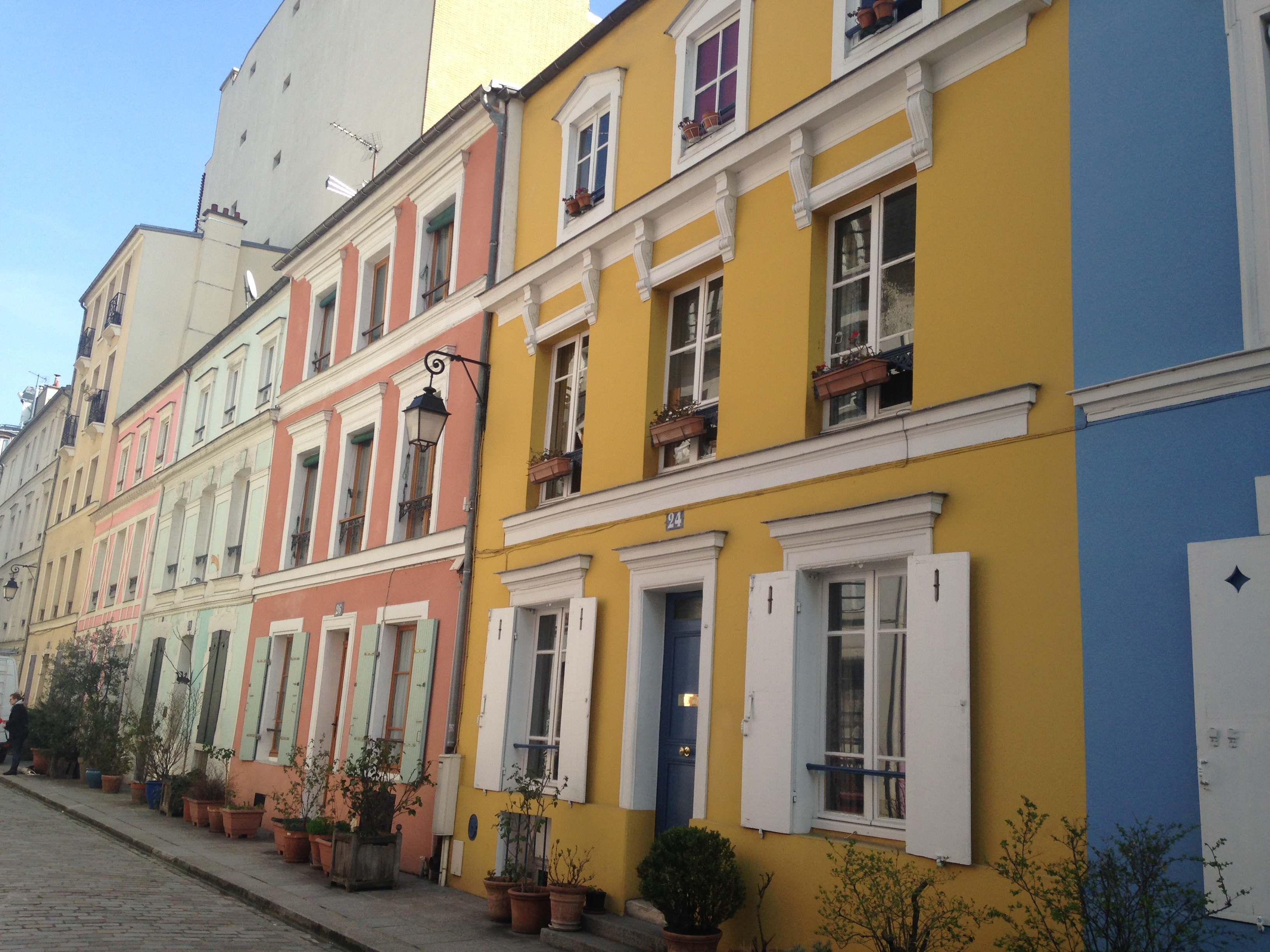 Rue Crémieux (Paris)